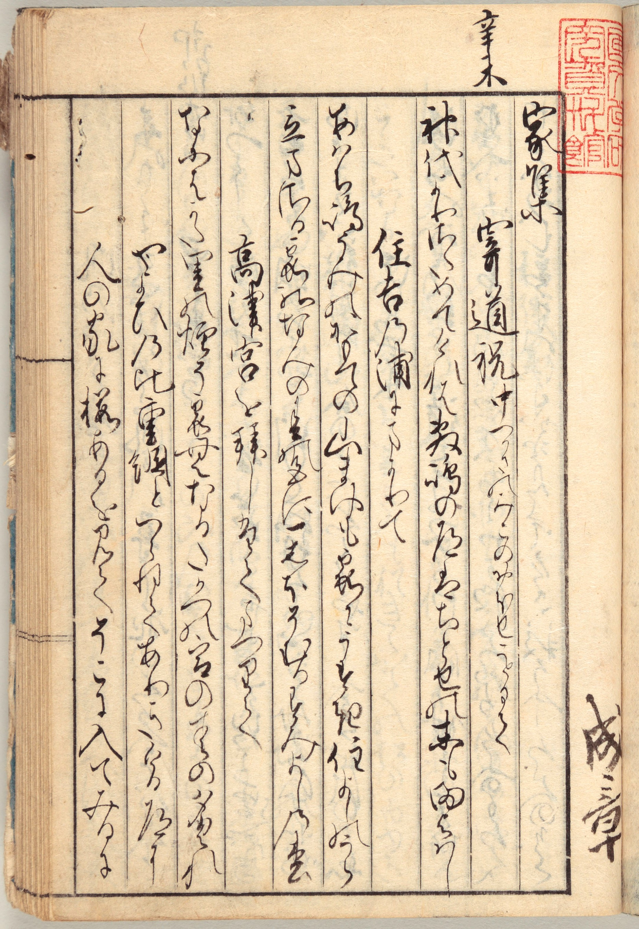 Text by Fujitani Naruaki